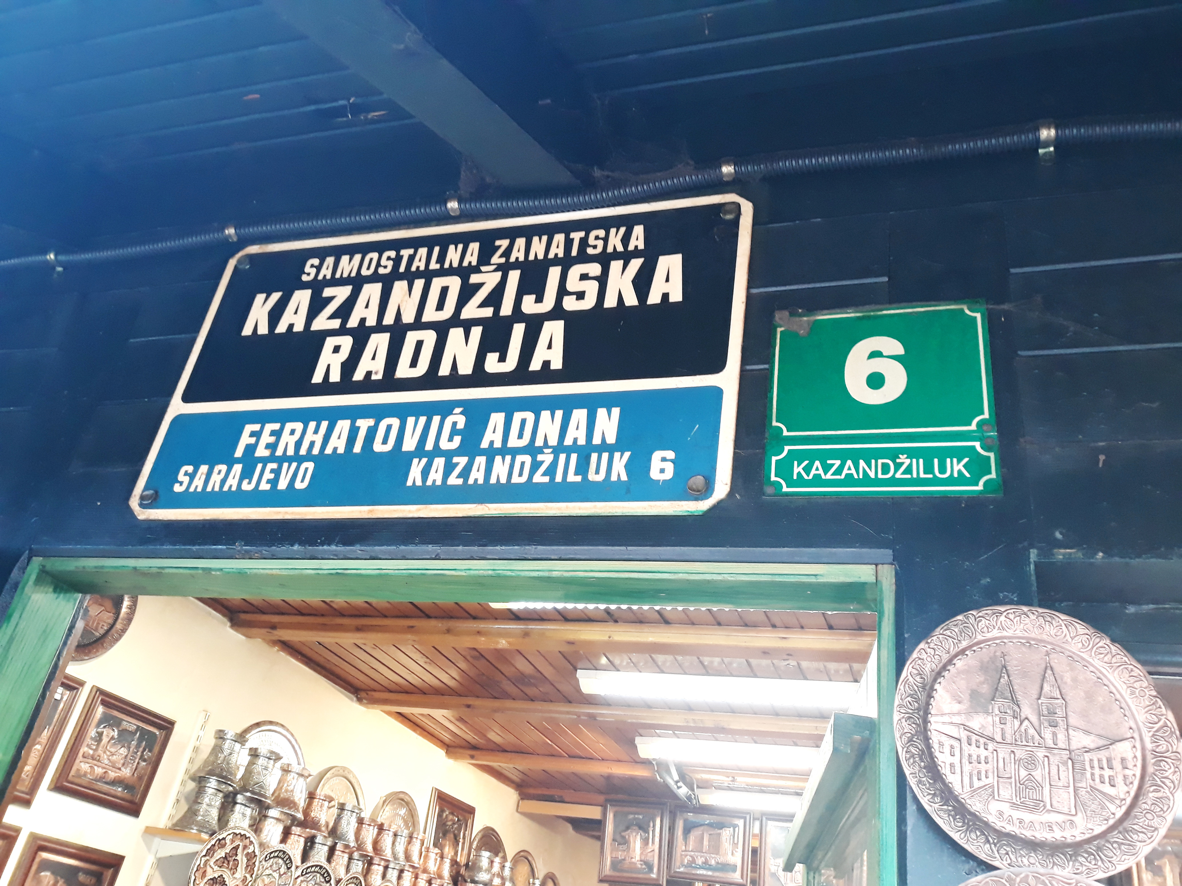 Street Kazandziluk in Sarajevo